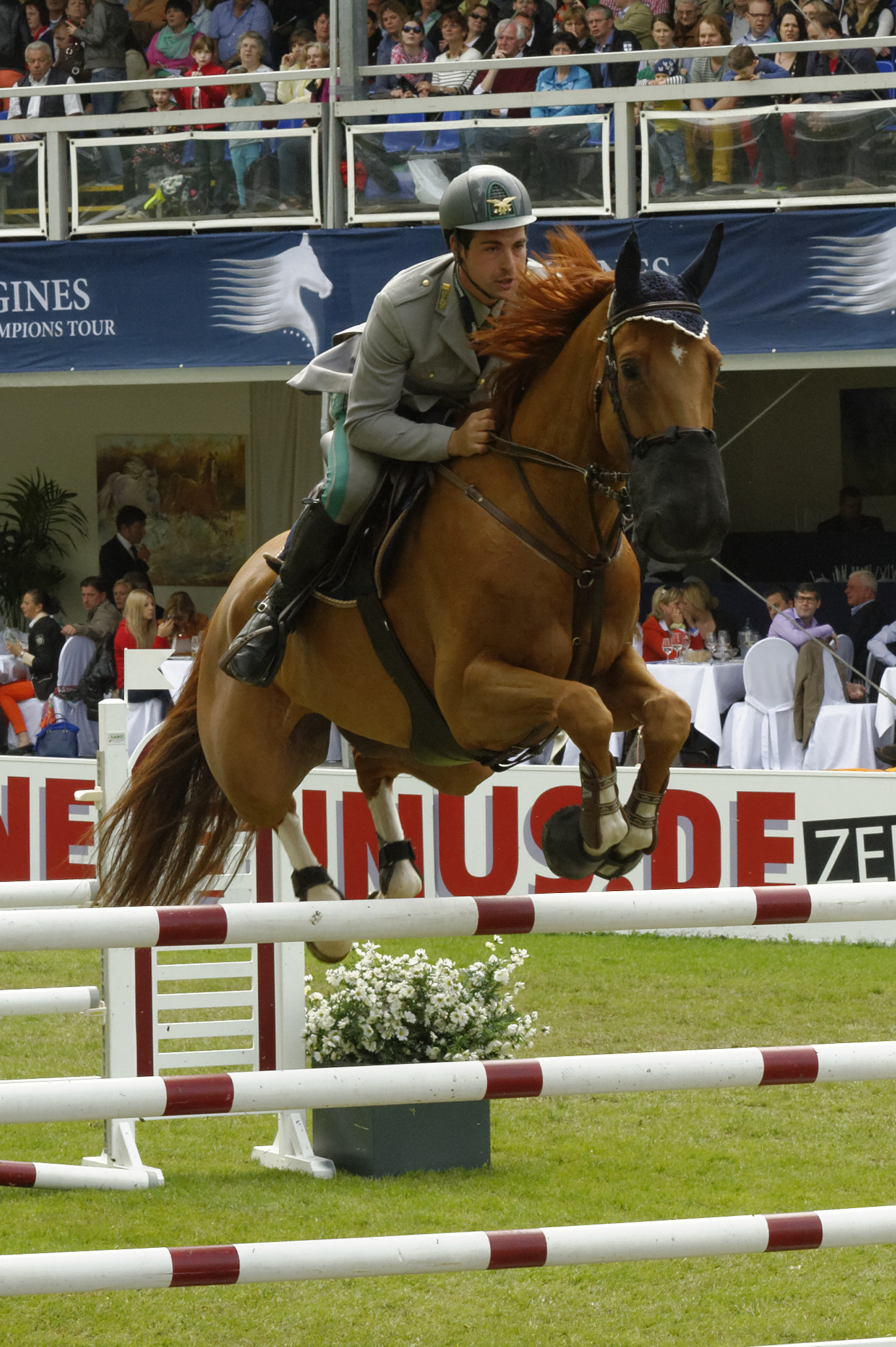 Internationales Pfingstturnier Wiesbaden 2013 The making of this document was supported by the Community-Budget of Wikimedia Germany.